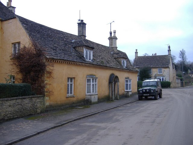 Badminton High Street At the west end of the south side of the street.